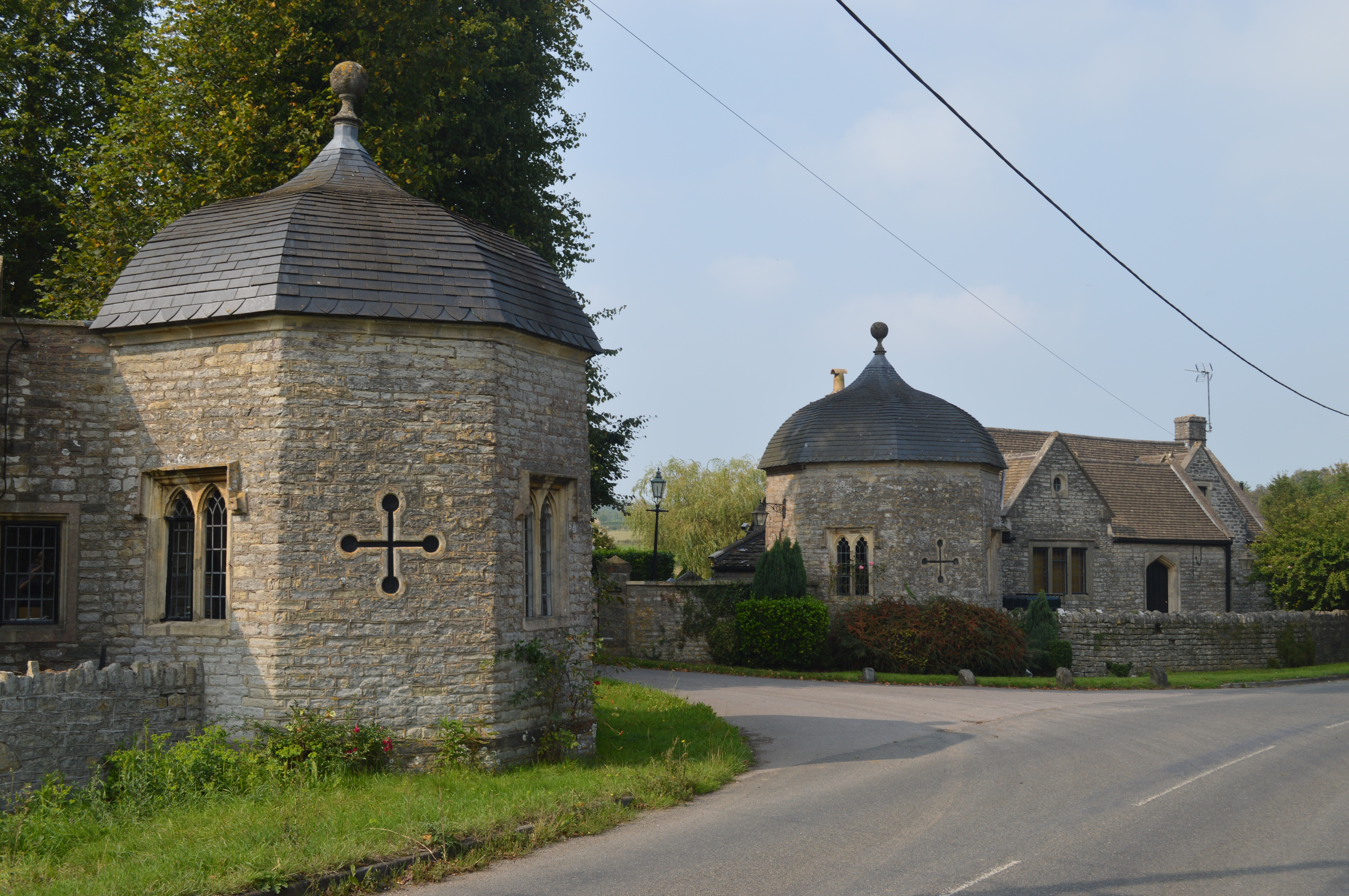 The Lodges to Siston Court, probably built early 19th century. Grade II* listed buildings.[1]